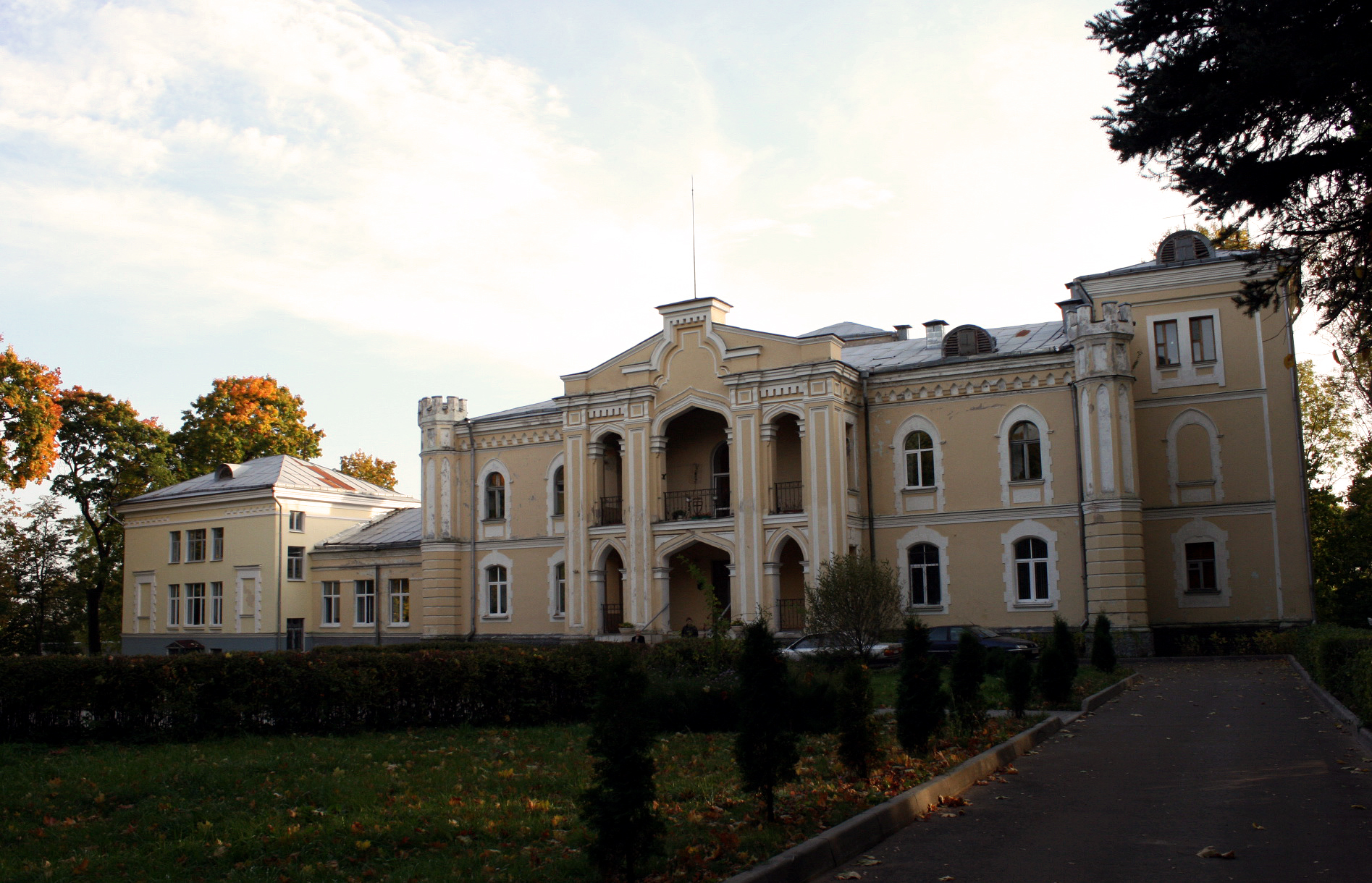 The palace and park complex of Earl Chapskii in Priluki, BelarusБеларуская (тарашкевіца): Палацава-паркавы комплекс графа Чапскага ў Прылуках, Беларусь